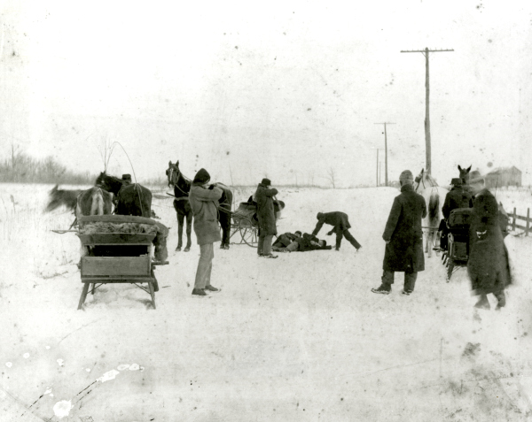 Capture of the mortally wounded Jack and Ed Biddle, showing the sleigh in which they and warden's wife Kate Soffel had attempted to escape